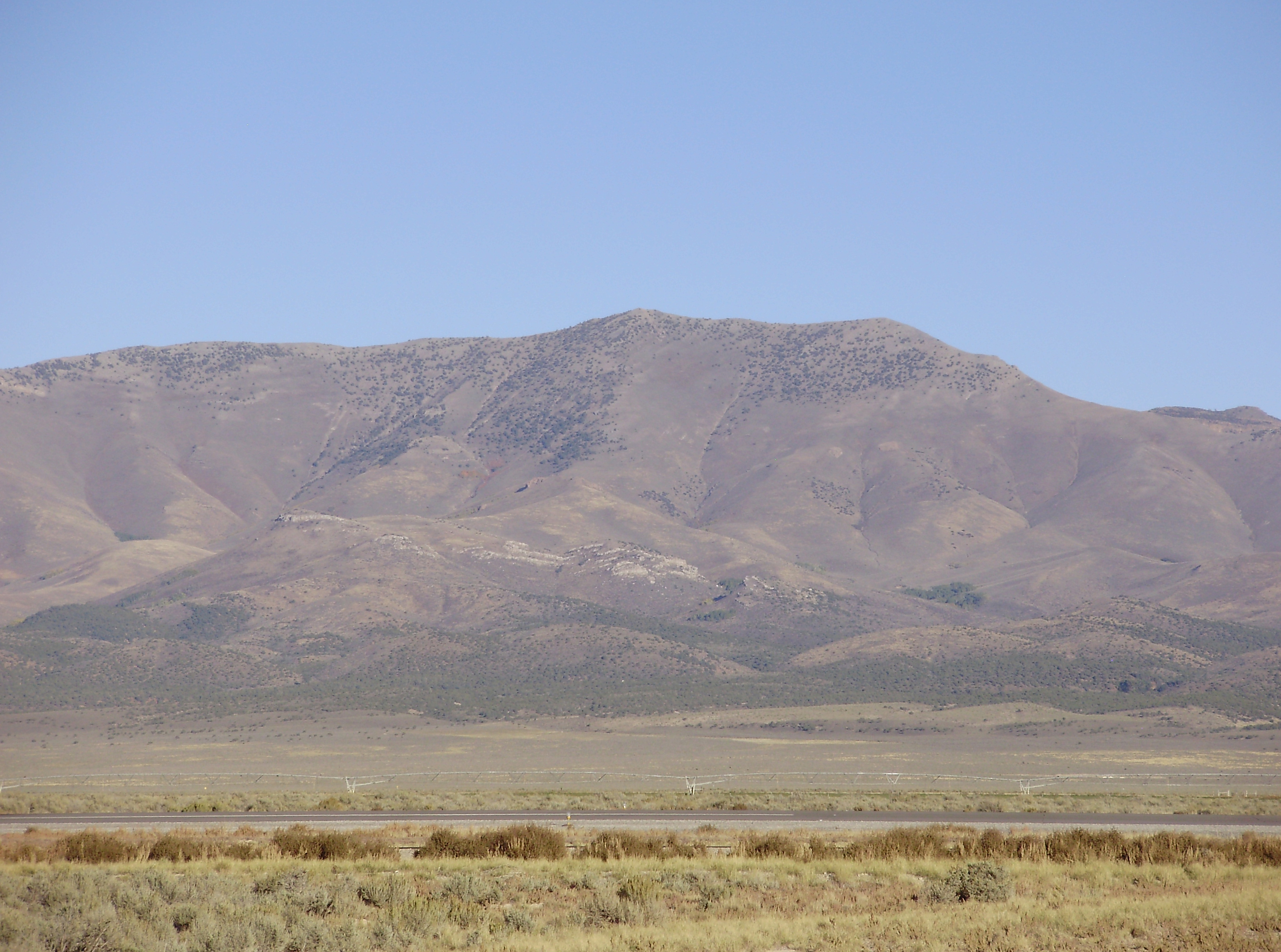 Fully zoomed view of Diamond Peak, Nevada from Eureka Airport